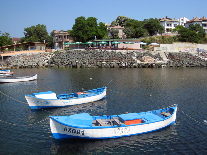 Boats in Ahtopol, Bulgaria